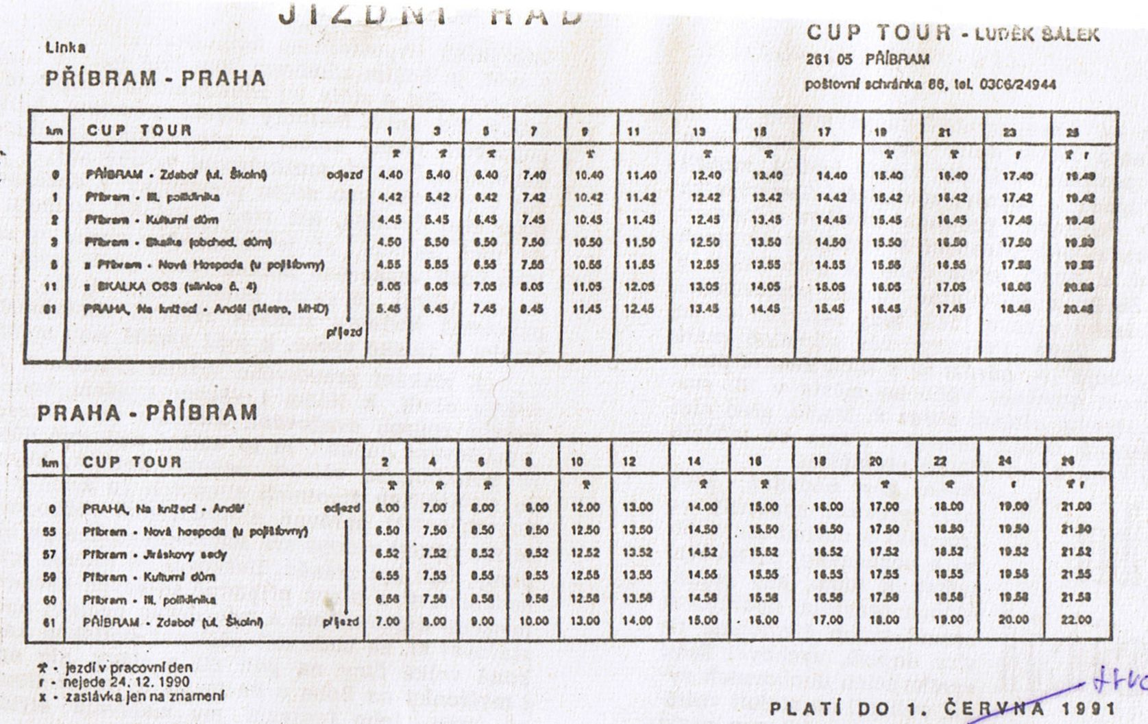 Timetable of the bus line Příbram – Praha, CUP TOUR – Luděk Šálek.